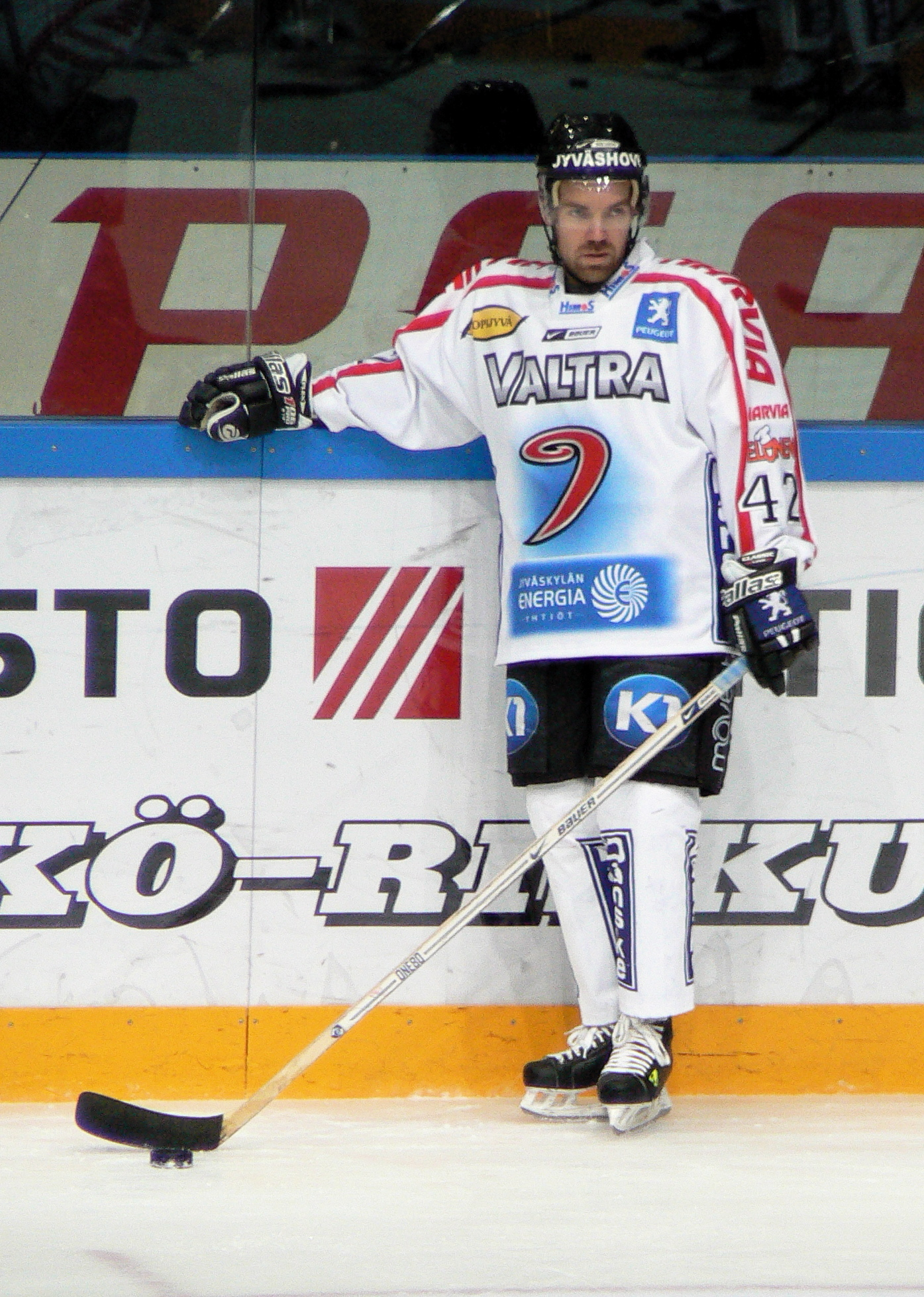 Finnish ice hockey forward Antti Virtanen of JYP Jyväskylä in October 2007.